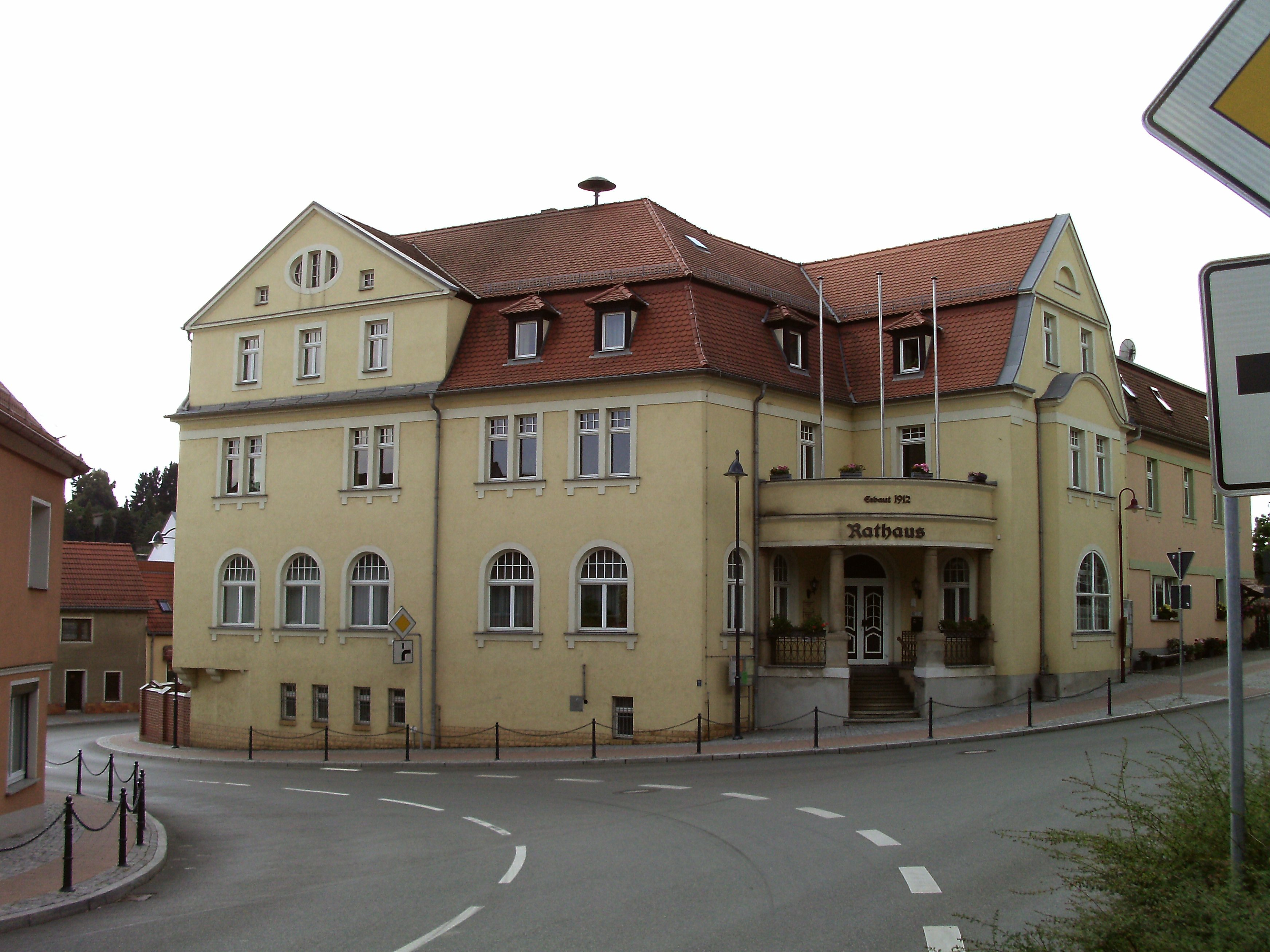 Münchenbernsdorf town hall (Greiz district, Thuringia)